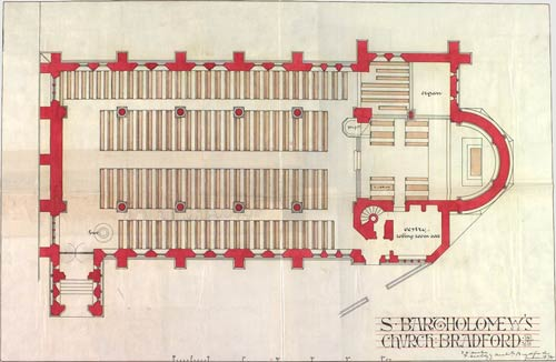 St Bartholomew's church grand plan as built from ICBS archive Other information Copy right is expired. The Healy partnership ceased 1910 on the death of both partners. The Incorporated Church building Society website makes old plans available for free down load